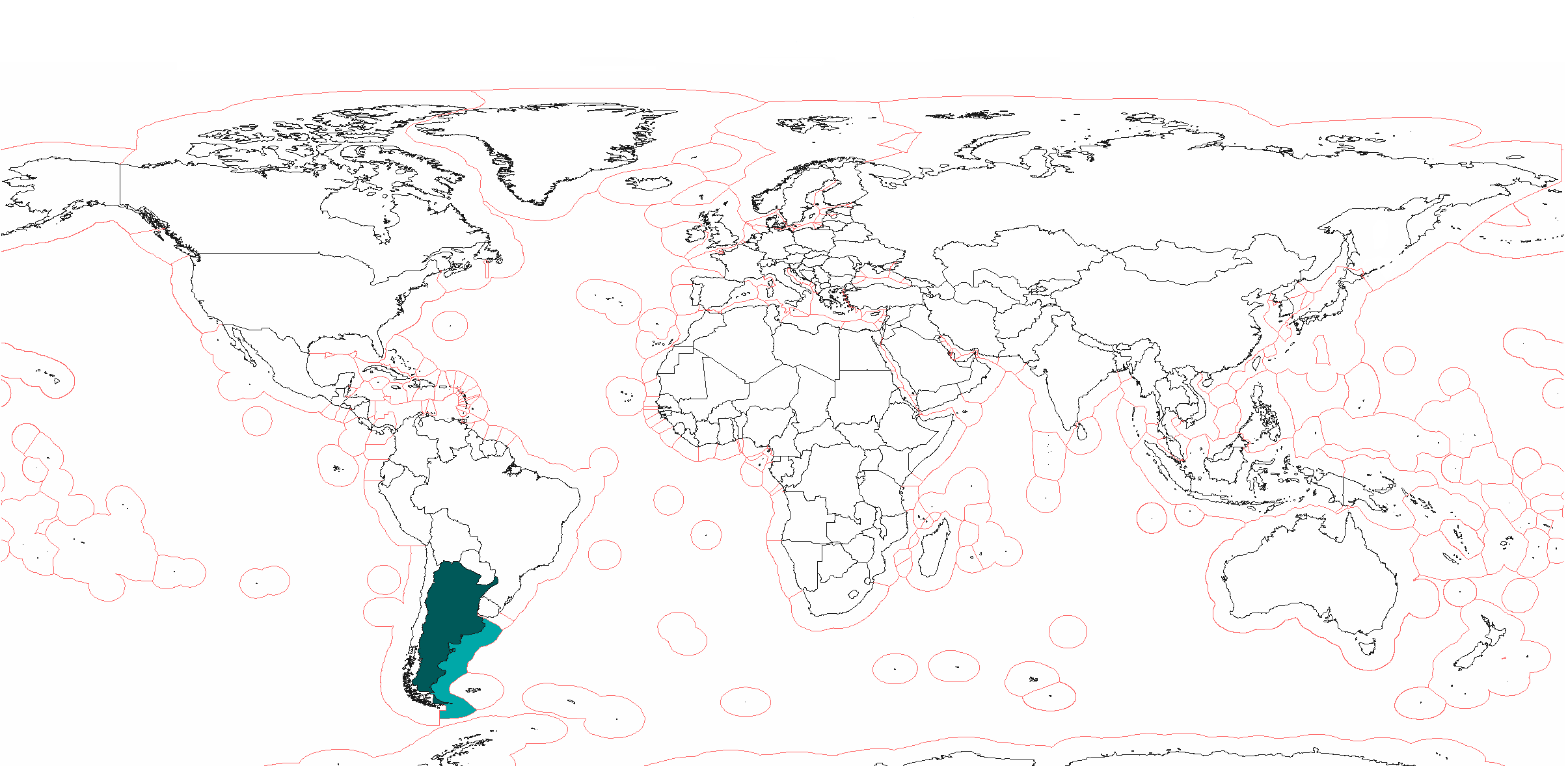 A colored map showing the exclusive economic zones of Argentina excluding territorial claims.